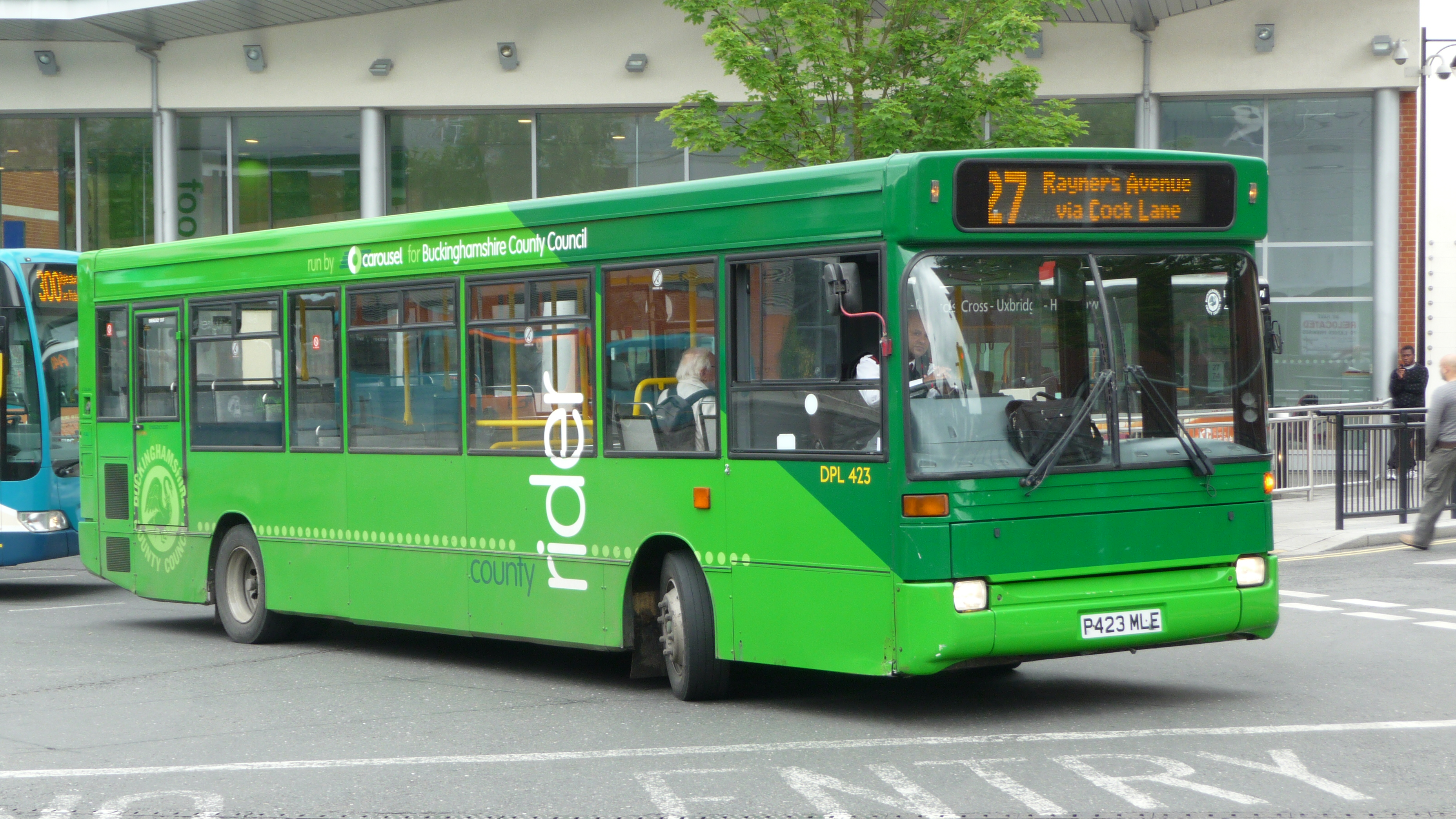 A Carousel Buses bus on route 27 leaving High Wycombe bus station and turning into Bridge Street, High Wycombe, Buckinghamshire. The bus is a Dennis Dart SLF with Plaxton Pointer 2 body, registration mark P423 MLE, fleet number DPL423, in green County Rider livery. Thanks go to the driver for ensuring I had a good photo before driving away.